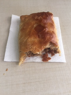 Greek meat pie (kreatopita).